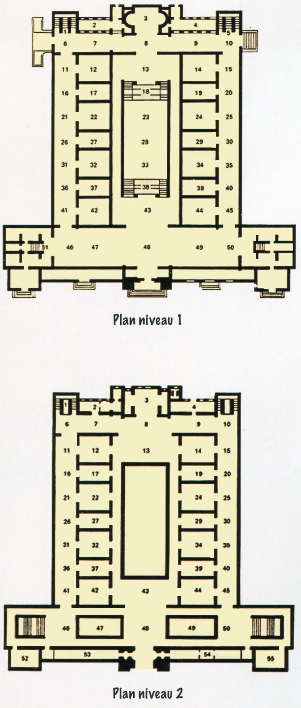 Map of Egyptian Museum (Cairo)